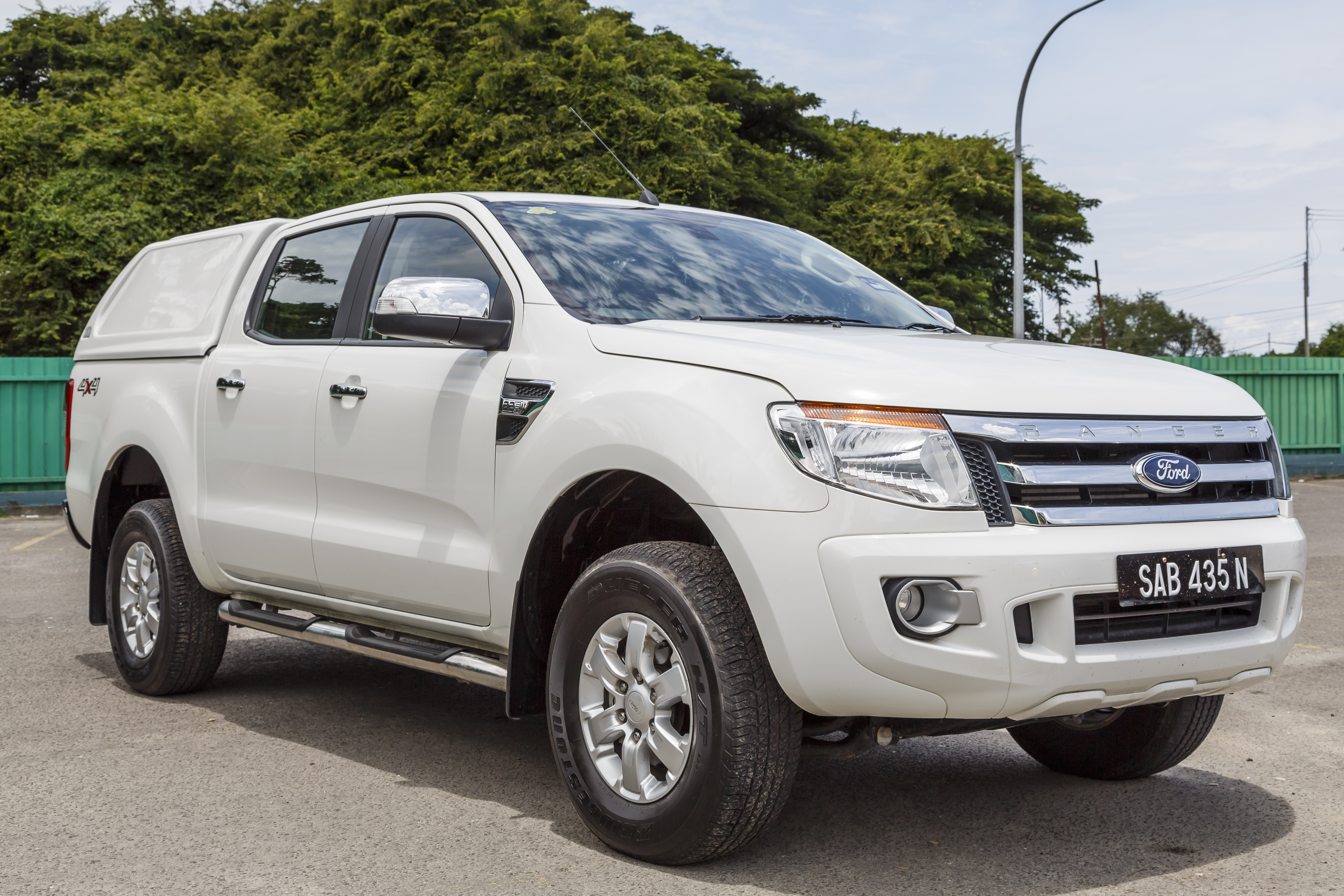 Papar, Sabah, Malaysia: The FORD RANGER that I used in 2013 for the research and photo tours in Sabah